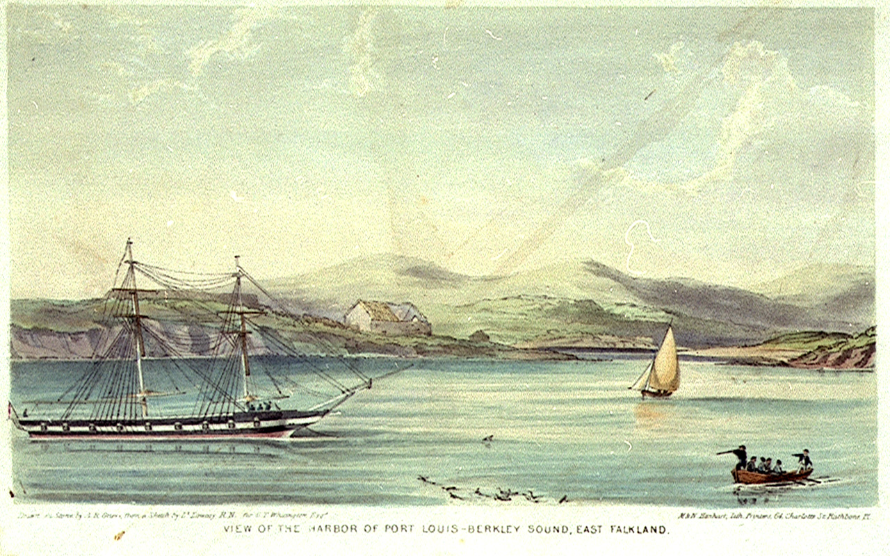 View of the Harbor of Port Louis - Berkley Sound, East Falkland.